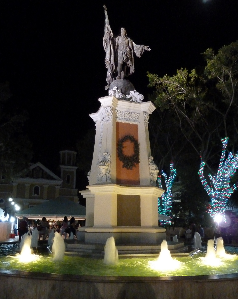 Statue of Christopher Columbus, Plaza Colón, Mayagüez, Puerto Rico.